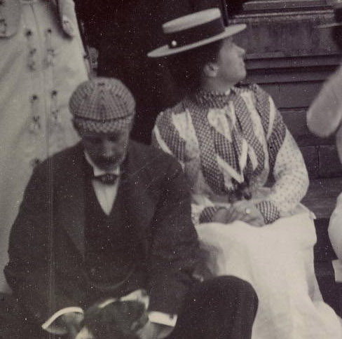 W:Arthur Markham's father Charles Paxton Markham and Violet Markham. Charles Markham was part owner of the family coal mine, Markham Main Colliery, in Chesterfield.[2]